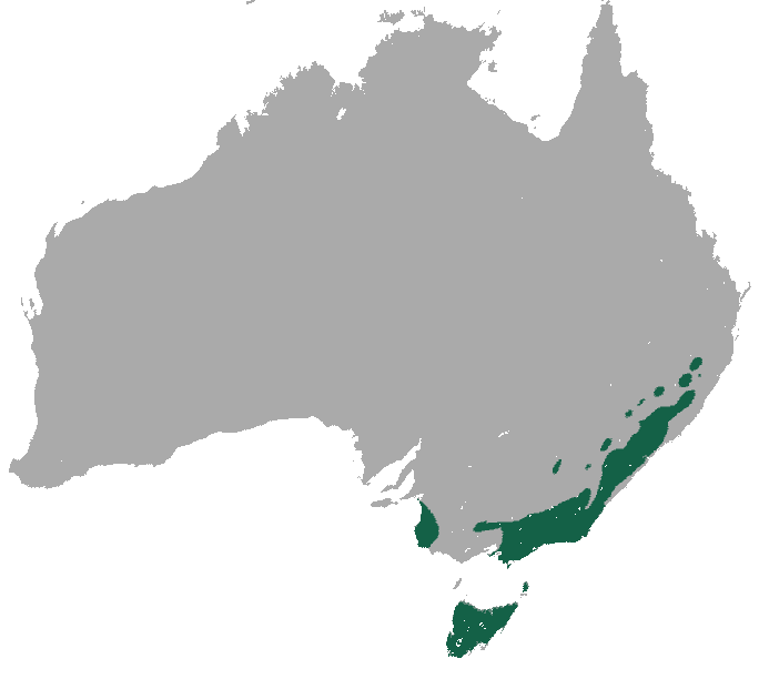 Common Wombat (Vombatus ursinus) range